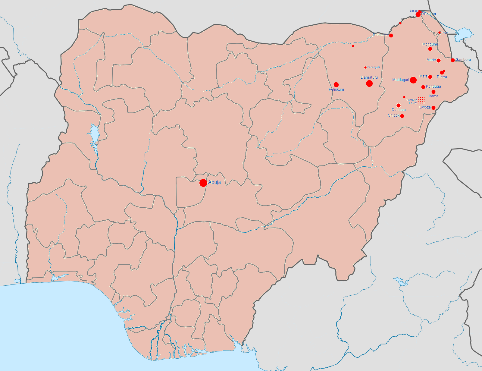 Map of the Boko Haram insurgency. The map image is based on Template:Nigerian insurgency detailed map. Controlled by the Nigerian government Controlled by Boko Haram/the Islamic State of Iraq and the Levant (variously called ISIL, ISIS, IS, Daesh)